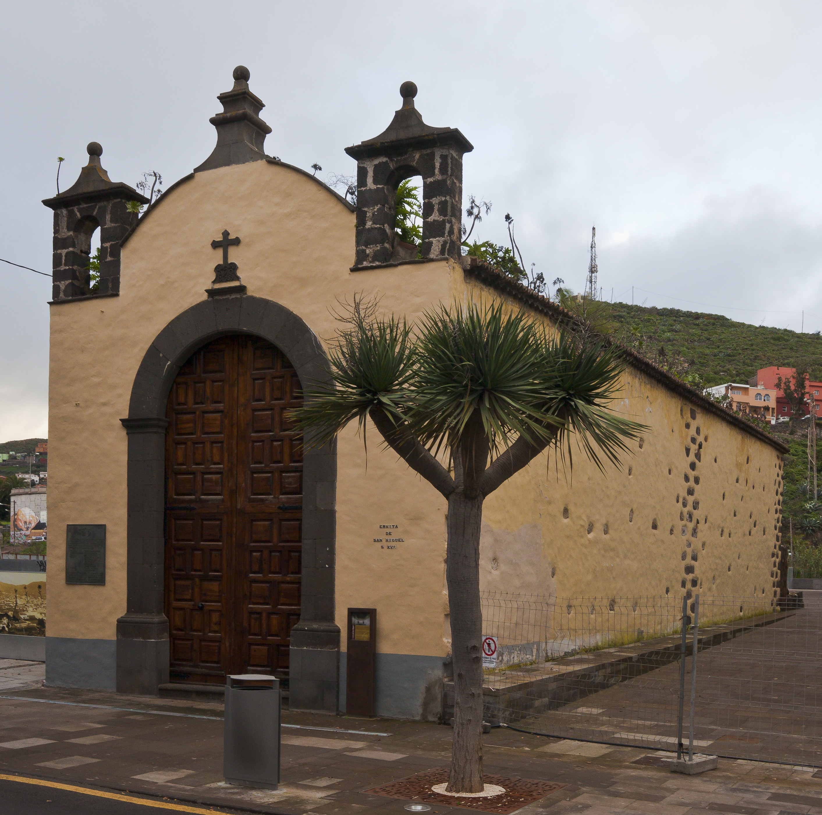 Hermitage of Saint Michael, San Cristóbal de La Laguna, Tenerife, Spain